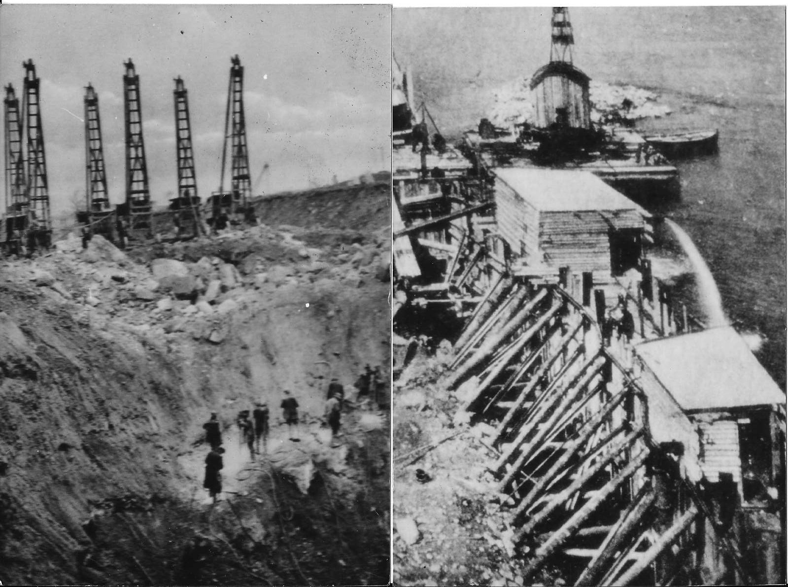 Construction of the main dam and canal